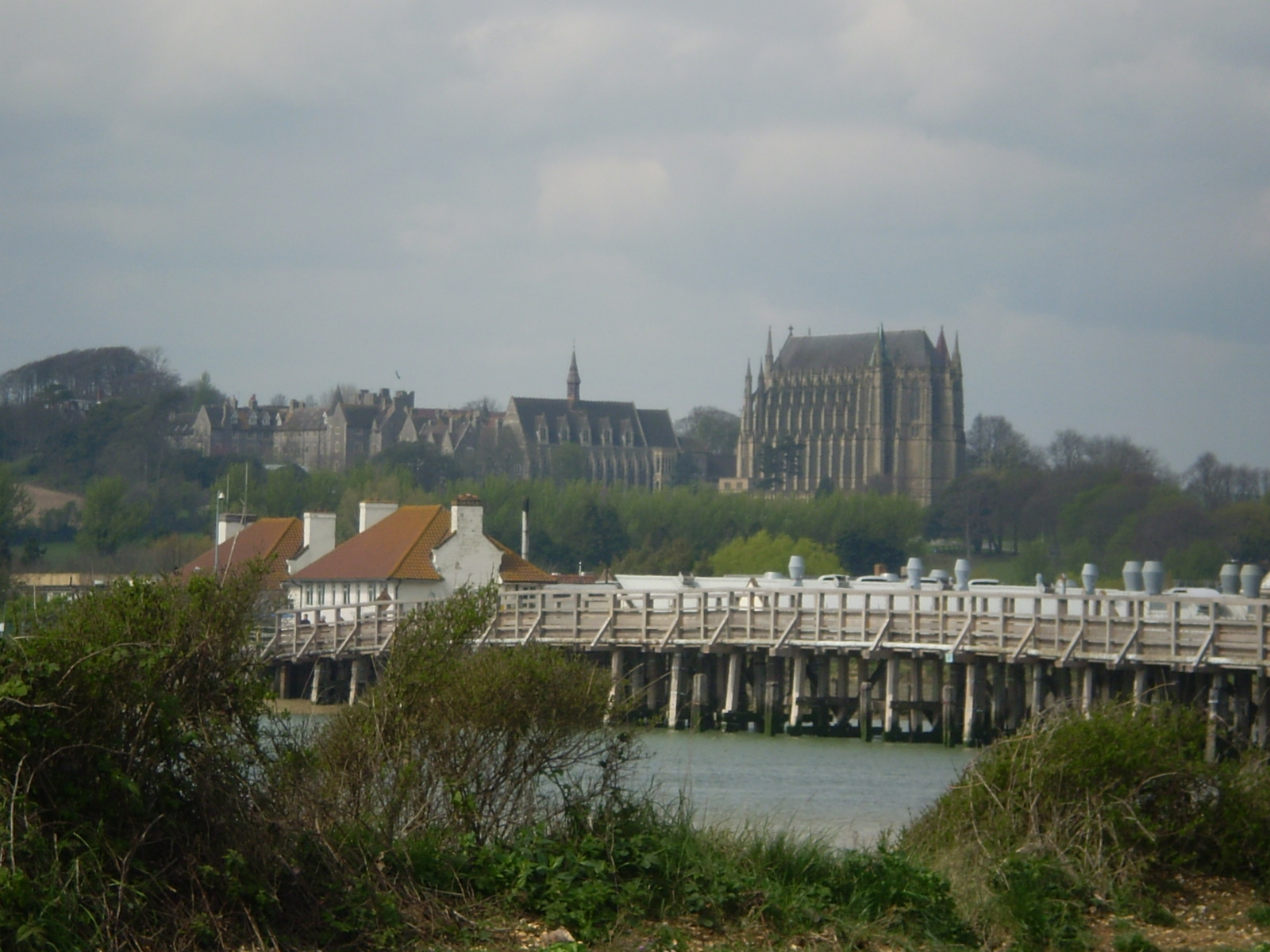 Shoreham Tollbridge, Shoreham-by-Sea, England, with Lancing College in background.